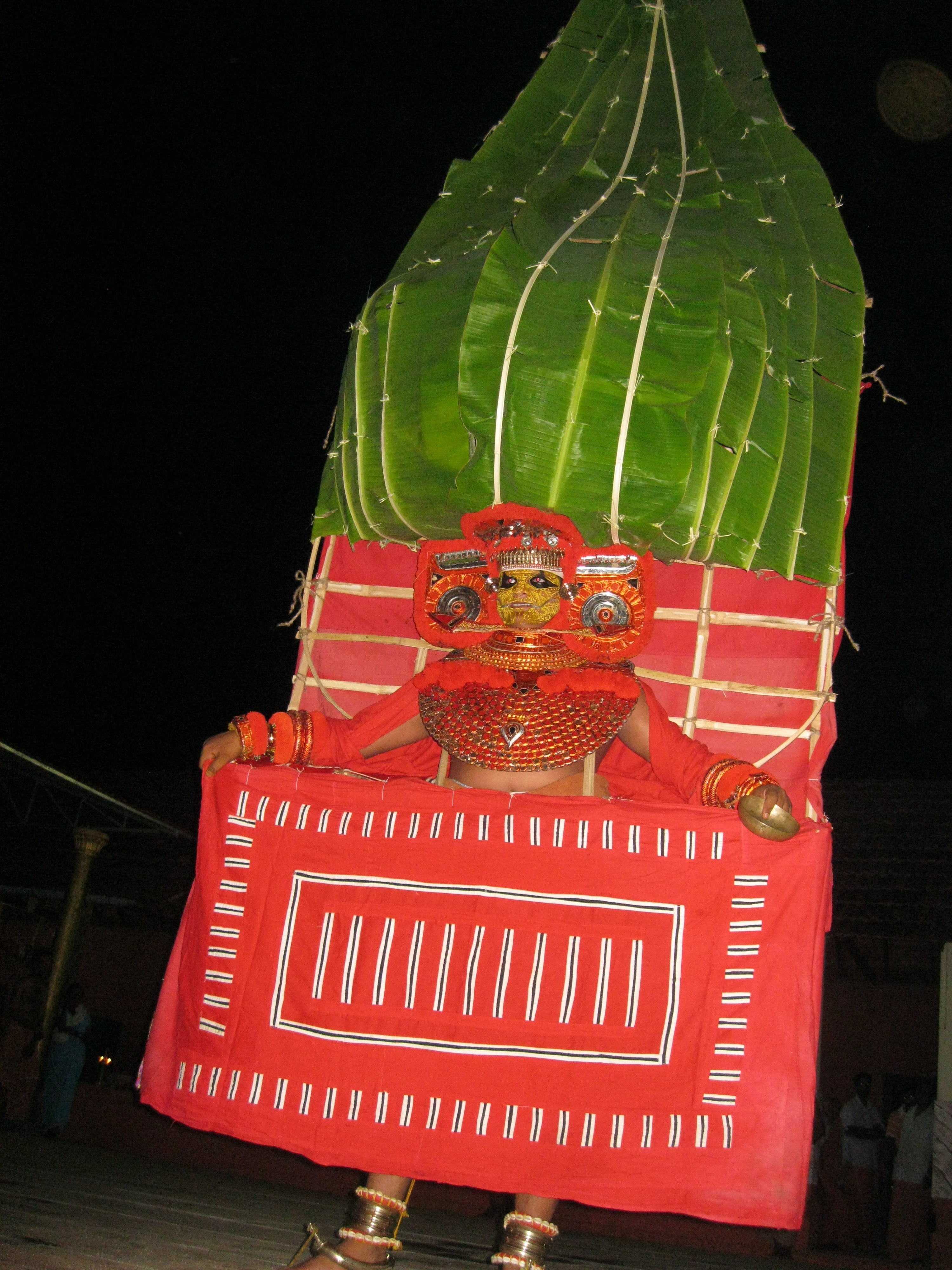 kunnathur moolam petta bhagavathi theyyam , kannur, kerala